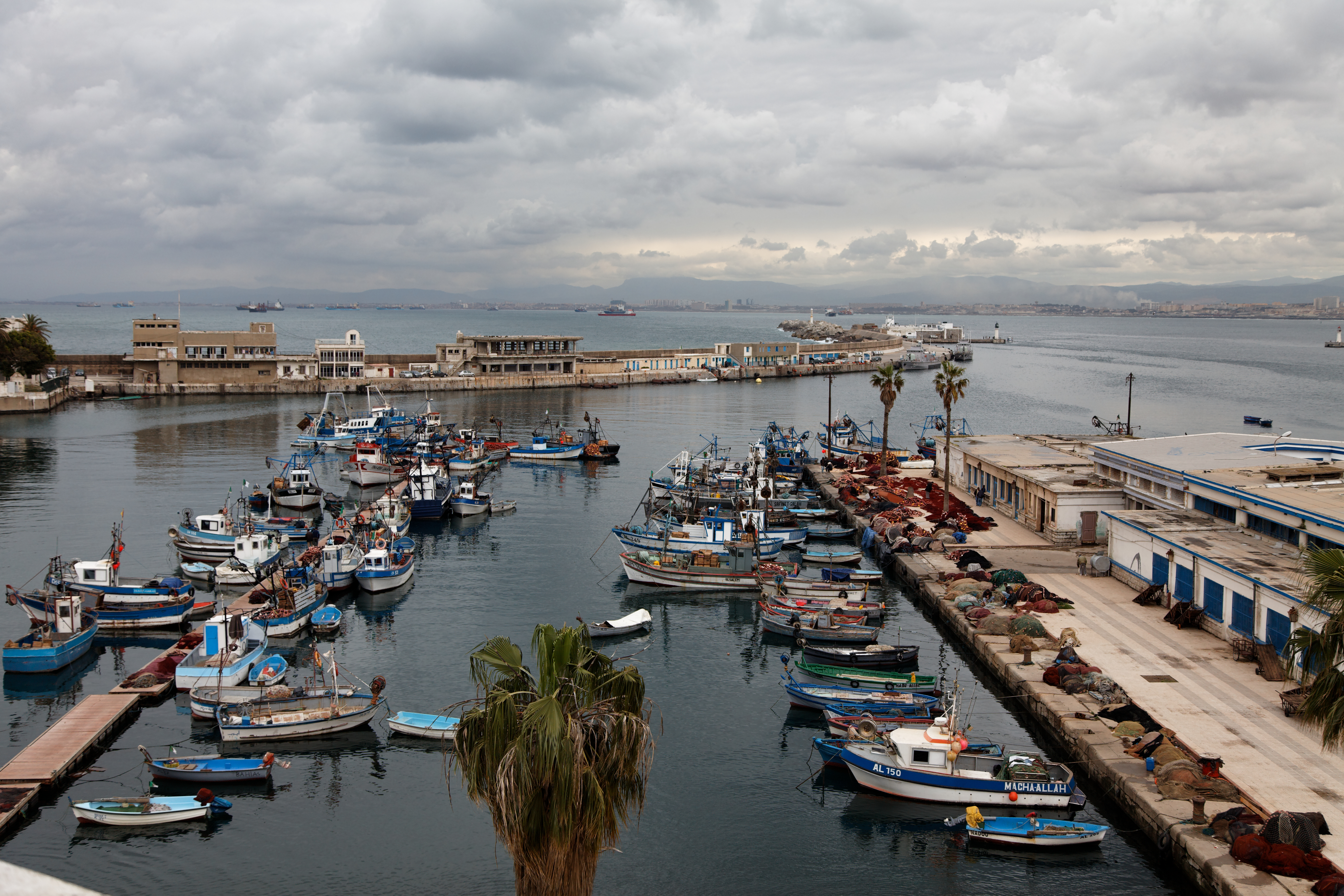 Algiers fishing port La Marsa (l'amirauté) d'Alger, historiquement le port de la ville et de sa Casbah. Ici la partie abritant petit port de pêche.